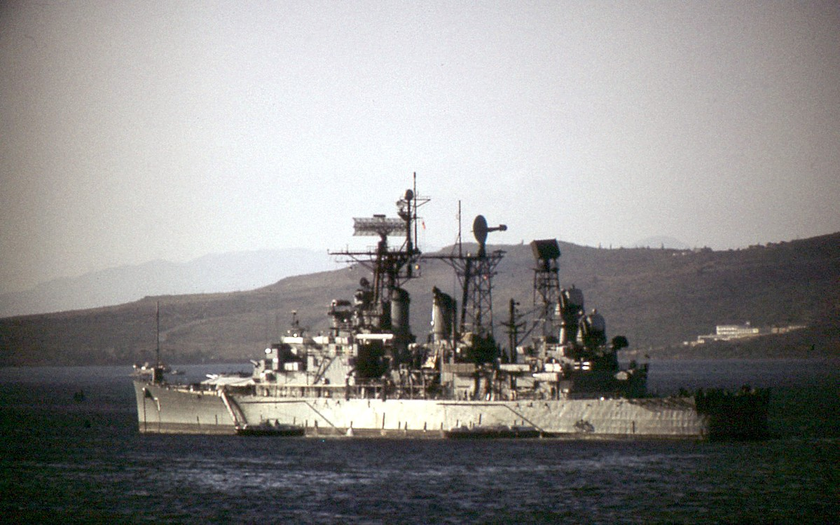 The U.S. Navy guided missile cruiser USS Springfield (CLG-7) at Souda Bay, Crete, Greece, in 1972.